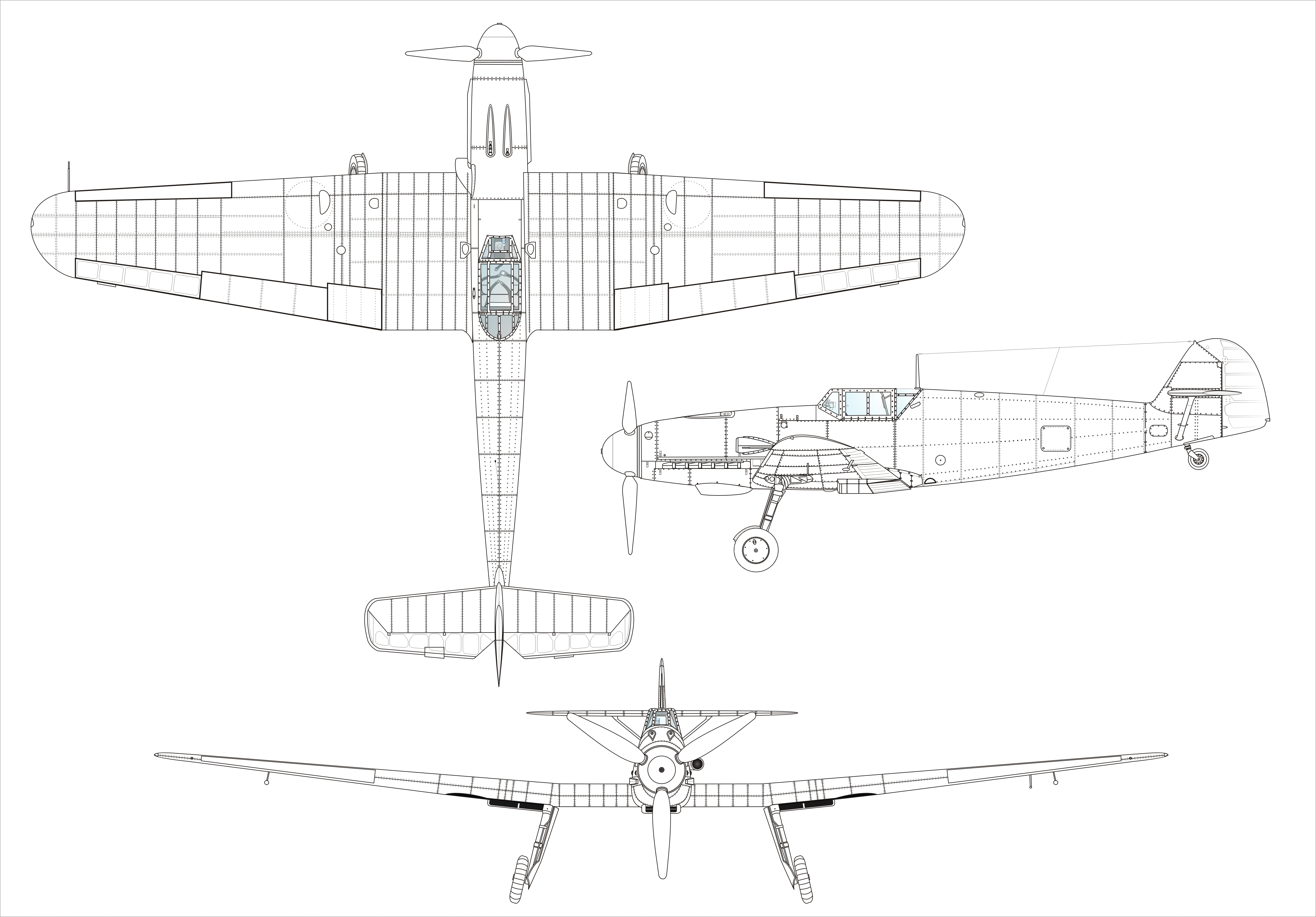 Bf 109 H-1